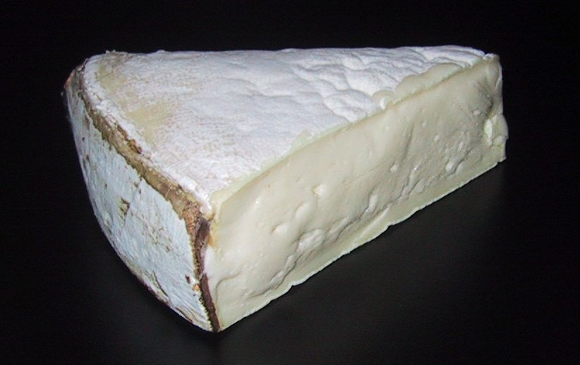 Vacherin du Haut-Doubs cheese, France. Photography (c) 2005 Zubro (image by myself).